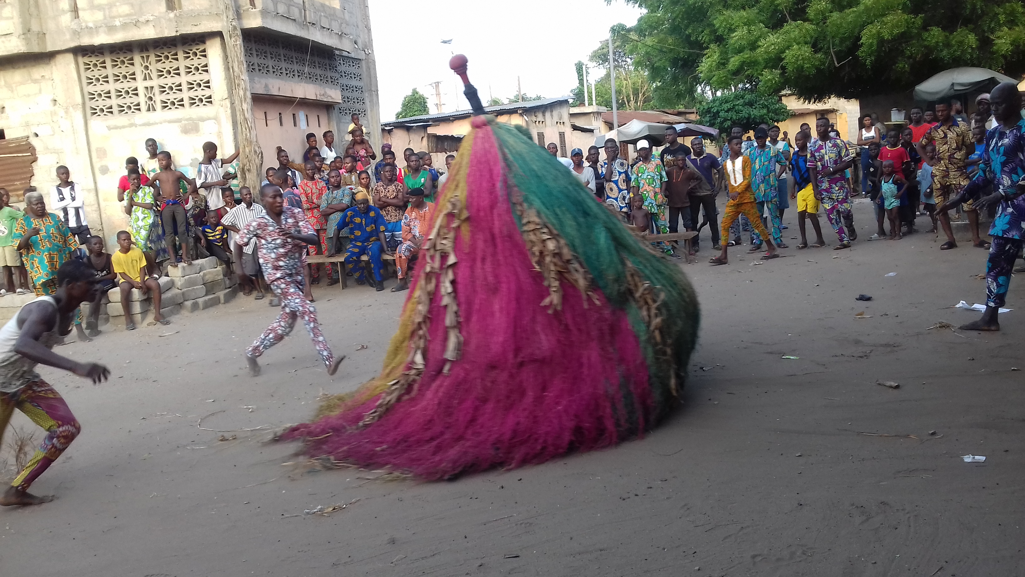 Ritual of Zangbeto in Benin. After the family ceremonies in this community, the Zangbeto ritual still called "Zangbeto Houn" is the last thing to happen. This time, I managed to shop some better moments of this event. It was in a small market of Godomey Hloulacomey.